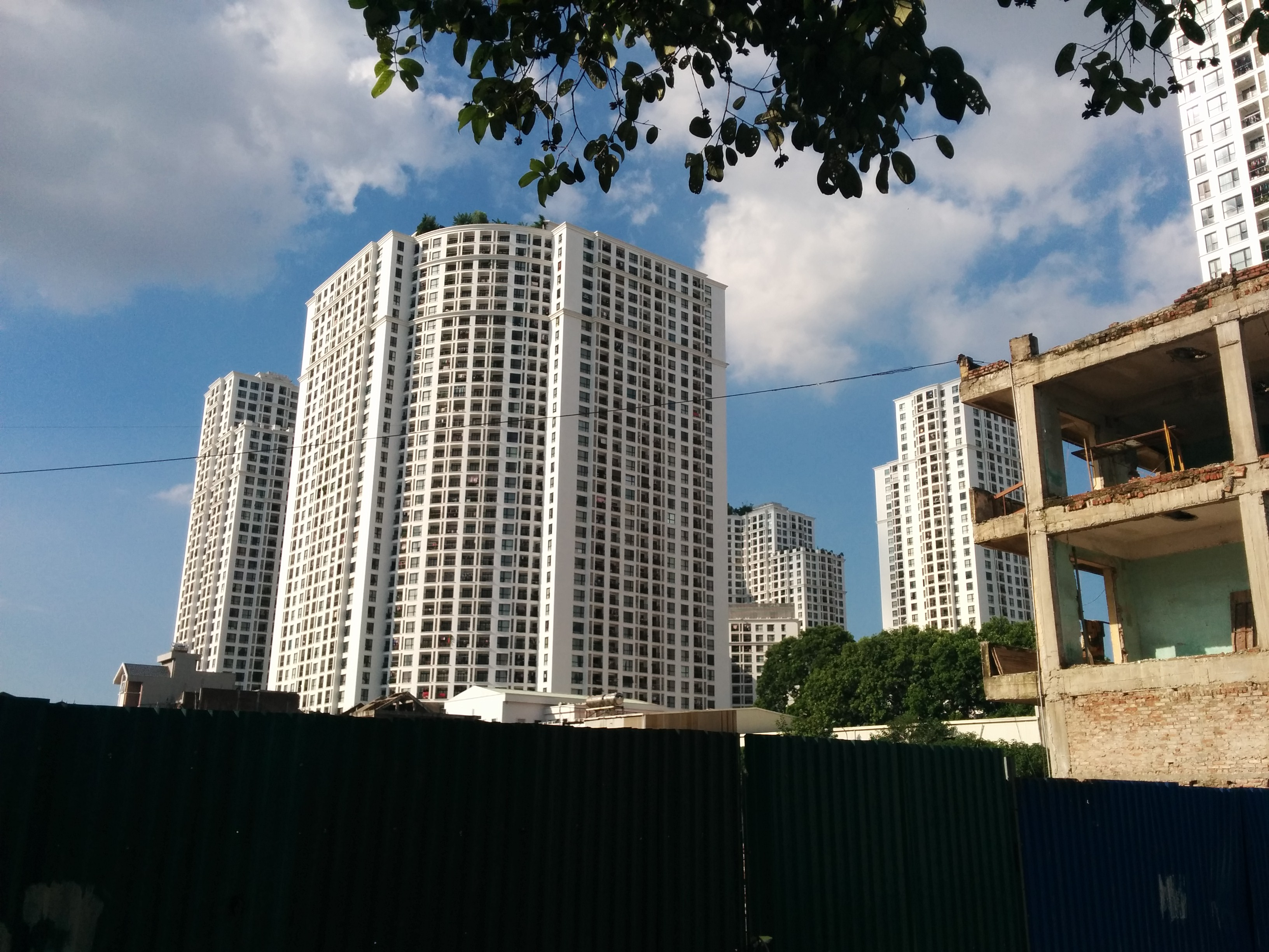 Shot from street